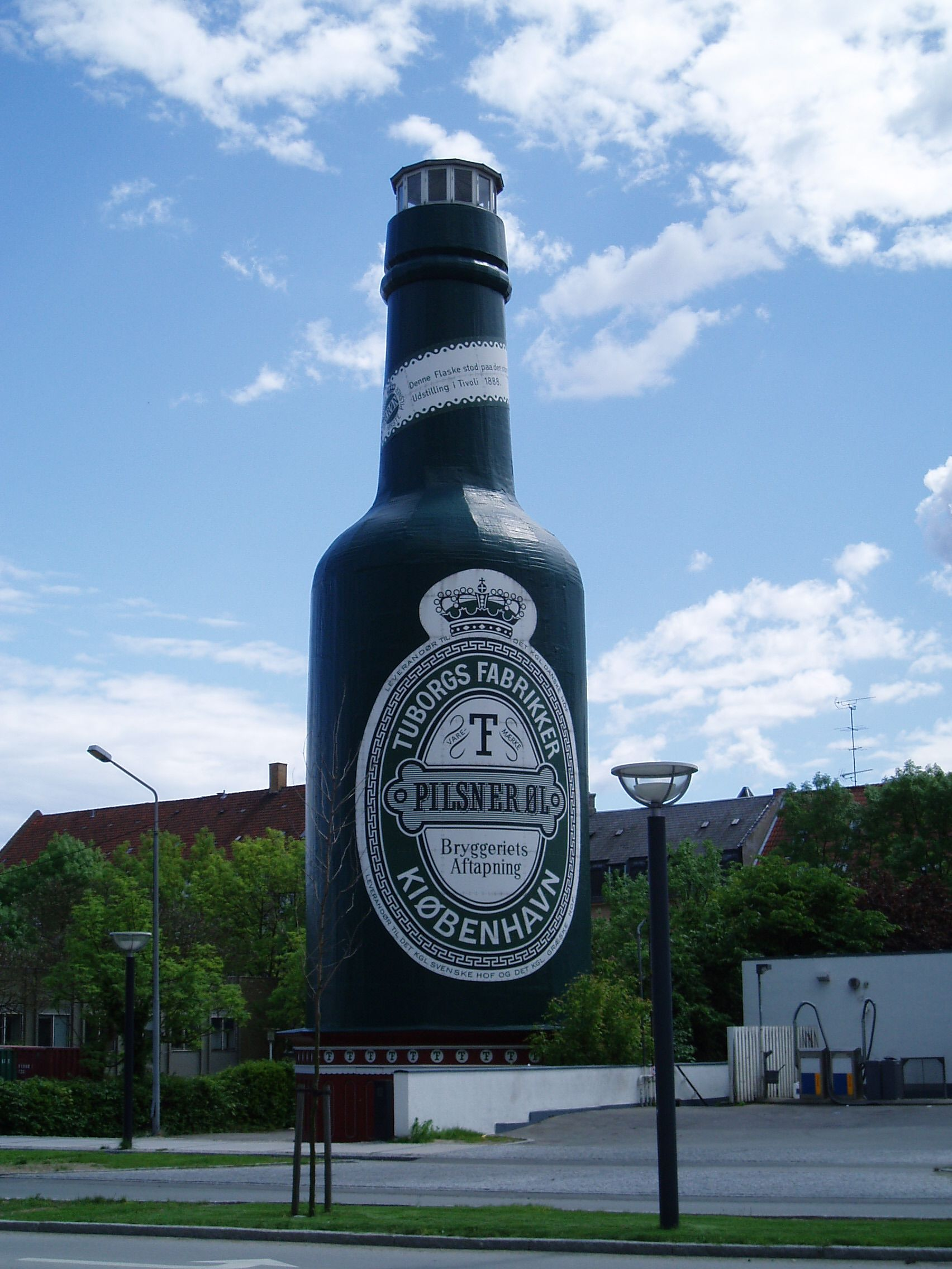 The Tuborg bottle observation tower.